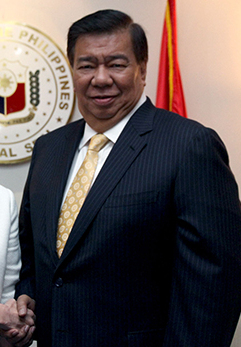 Senate President Franklin M. Drilon welcomes Amanda Louise Gorely, the new Australian Ambassador to the Philippines, during a courtesy call at the Senate Wednesday, January 20, 2016. Gorely replaced outgoing Australian Ambassador Bill Tweddell